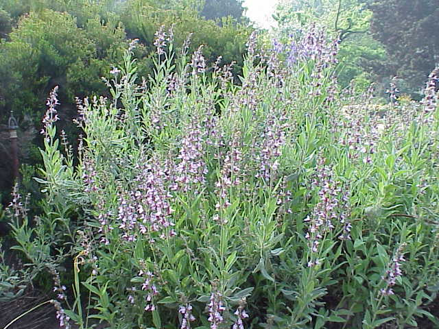 Species: Salvia officinalis Family: Lamiaceae Image No. 2